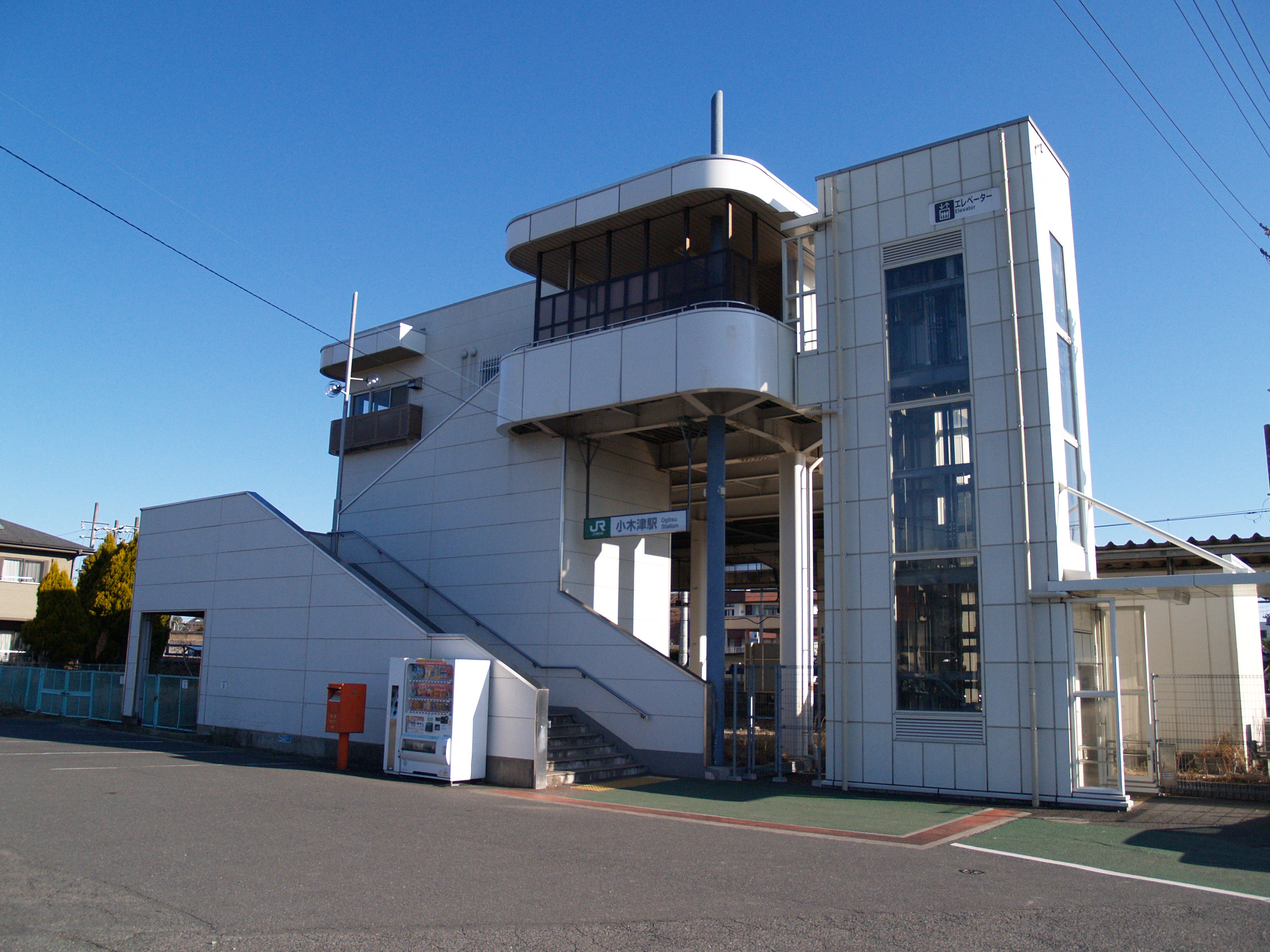 West entrance of Ogitsu Station